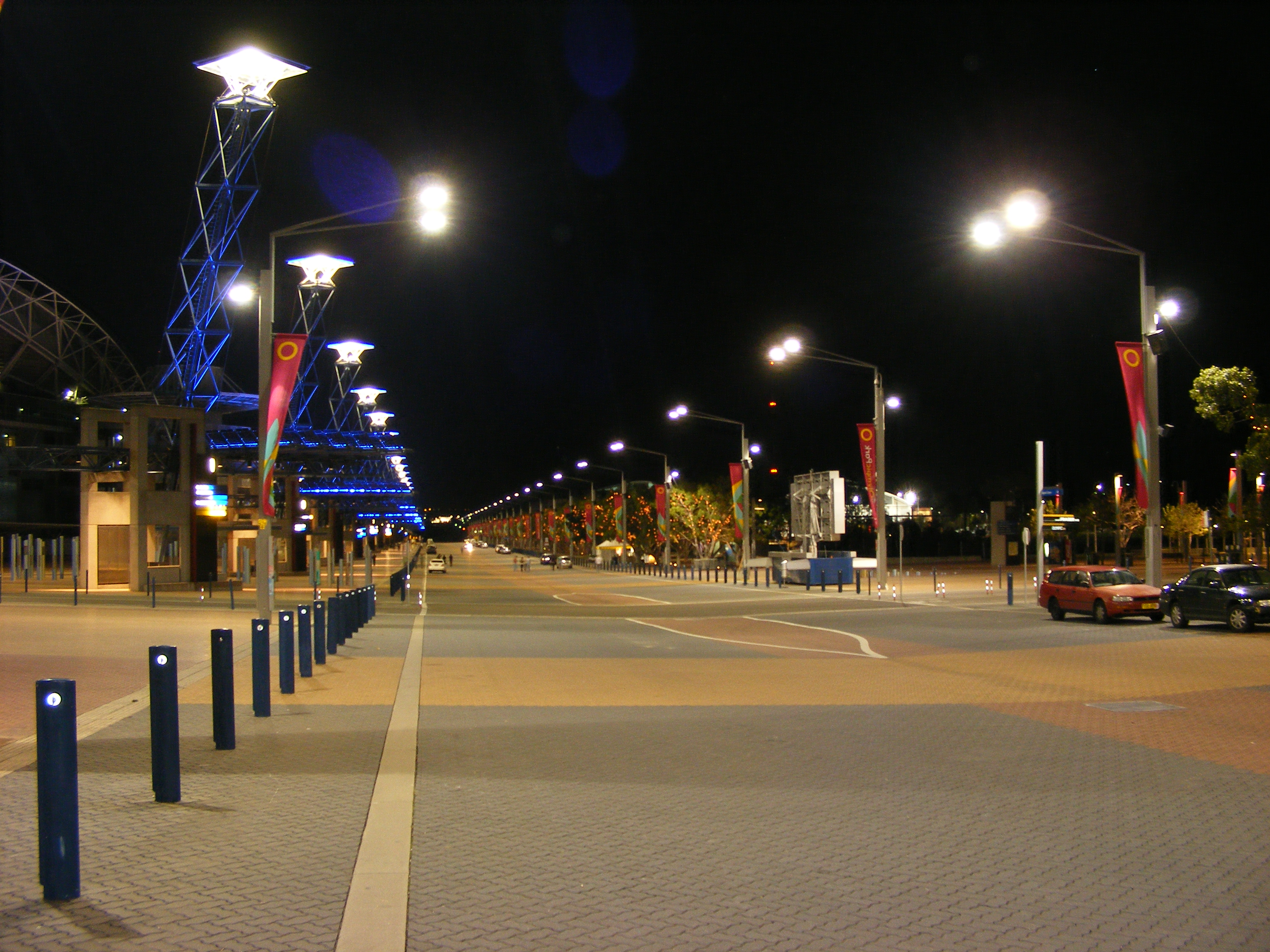 Sydney Olympic park Australia